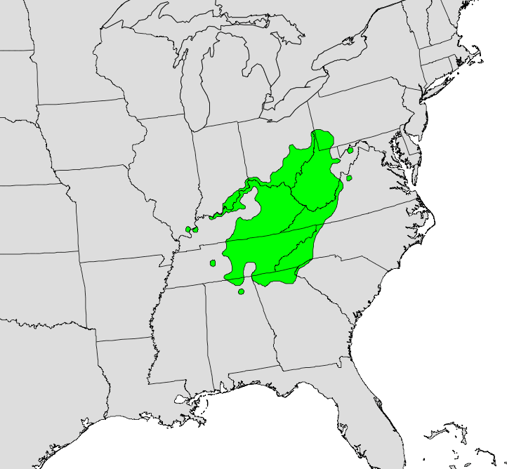 Distribution map of Aesculus flava — yellow buckeye. Including Appalachian Mountains habitats.